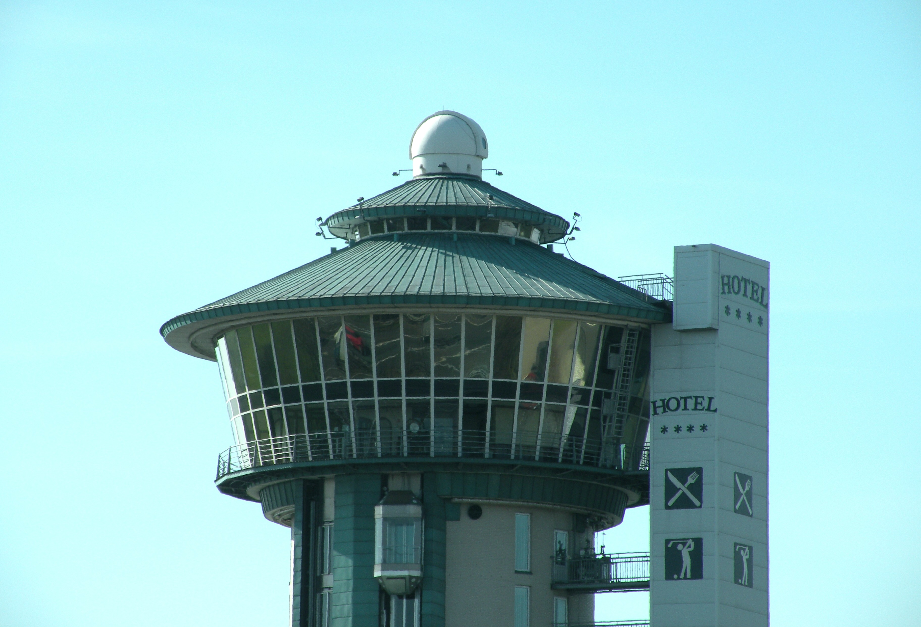 De Lichtmis, The Netherlands: De Koperen Hoogte, close up of the hotel-restaurant in an unused water tower.